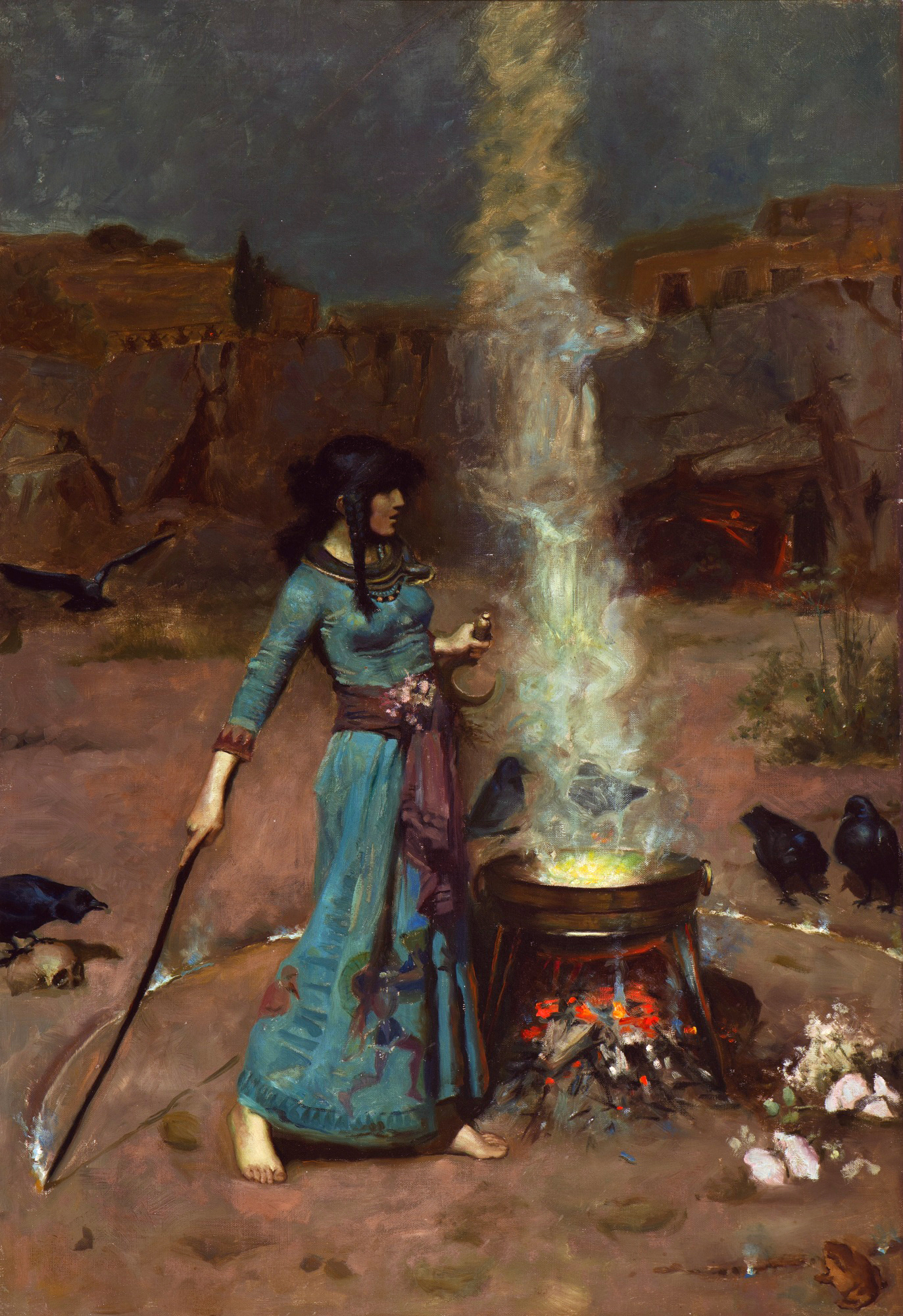 «A later inscription on the reverse of the canvas suggests that this picture was a study for the painting at Tate Britain. However, the high level of finish and the existence of another, smaller and loosely painted picture of the same composition suggests that they were produced as versions, probably worked upon concurrently. This was often Waterhouse’s practice and he would produce several versions of a picture, one of which would be worked up as the prime version. The only picture that should probably be described as a study is the wash drawing exhibited at the Dudley Gallery in 1881 (private collection) which proves that the subject had been suggested to Waterhouse at least five years earlier than the oil paintings.» (see source)